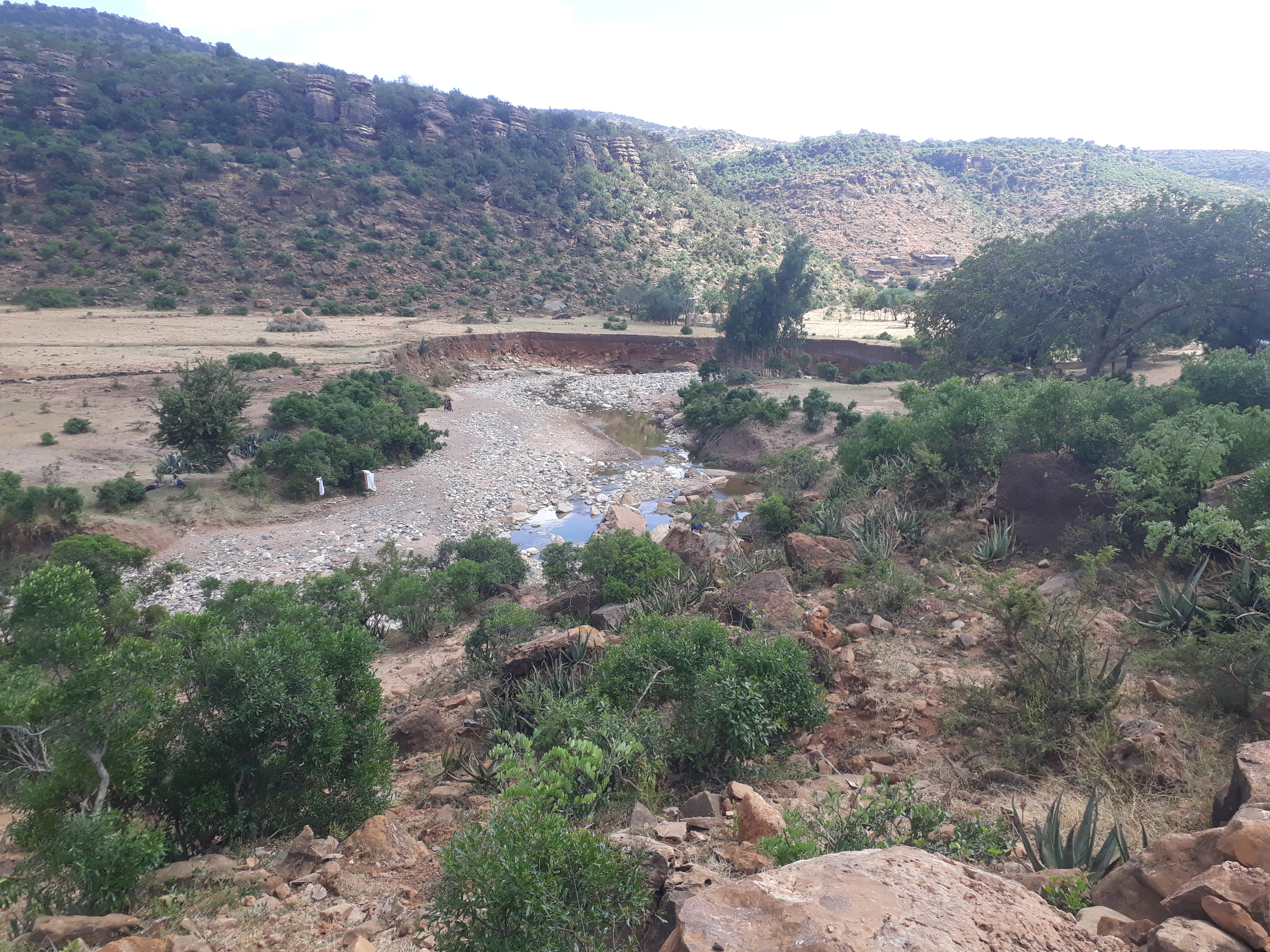 Rubaksa at Dabba Hadera